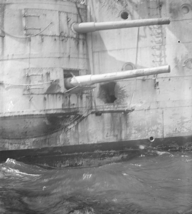 IWM caption : "THE BATTLE OF THE FALKLAND ISLANDS 8 DECEMBER 1914. Damage to HMS KENT caused by 4.1 inch shell fired by the German cruiser SMS NURNBERG." Comment : 2 6-inch Mk VII guns in the starboard forward casemates are seen. Note : this version has the lower part of the original IWM photo clipped off, it shows only the sea surface.